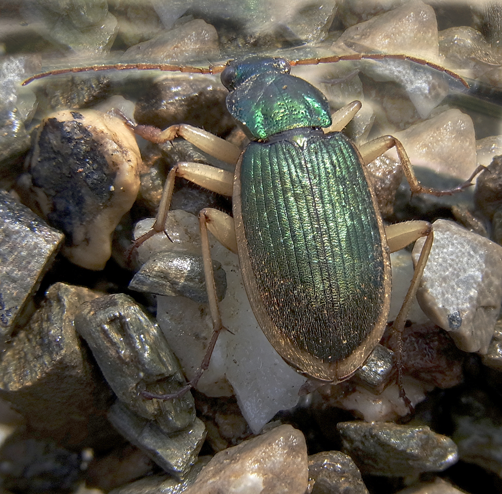 Chlaenius velutinus from Southern France north of Beziers